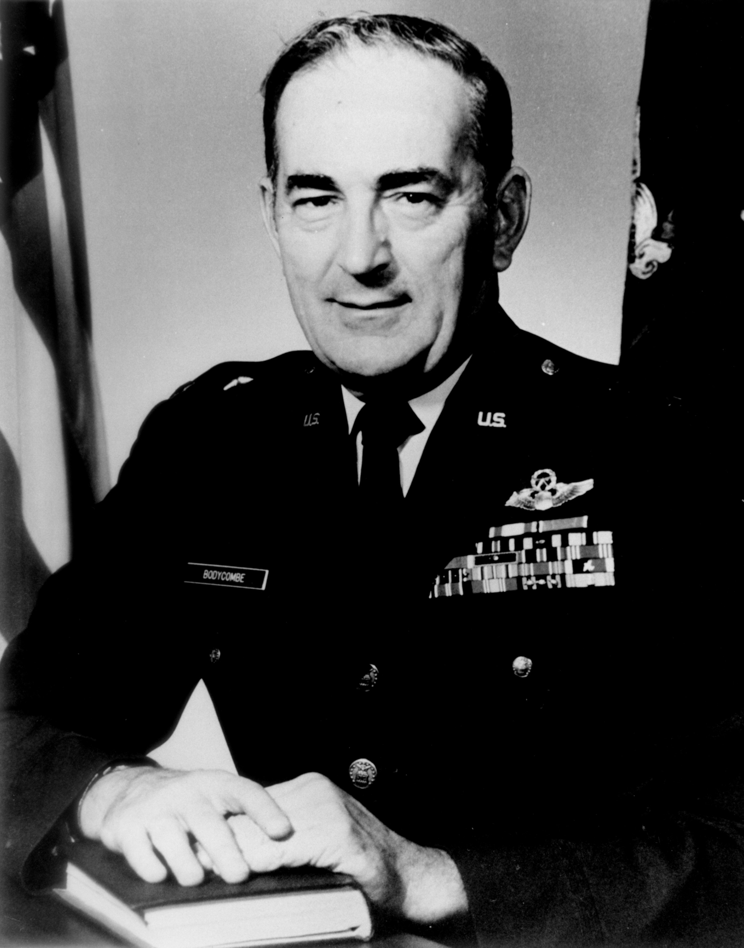 MGEN R Bodycombe, USAF